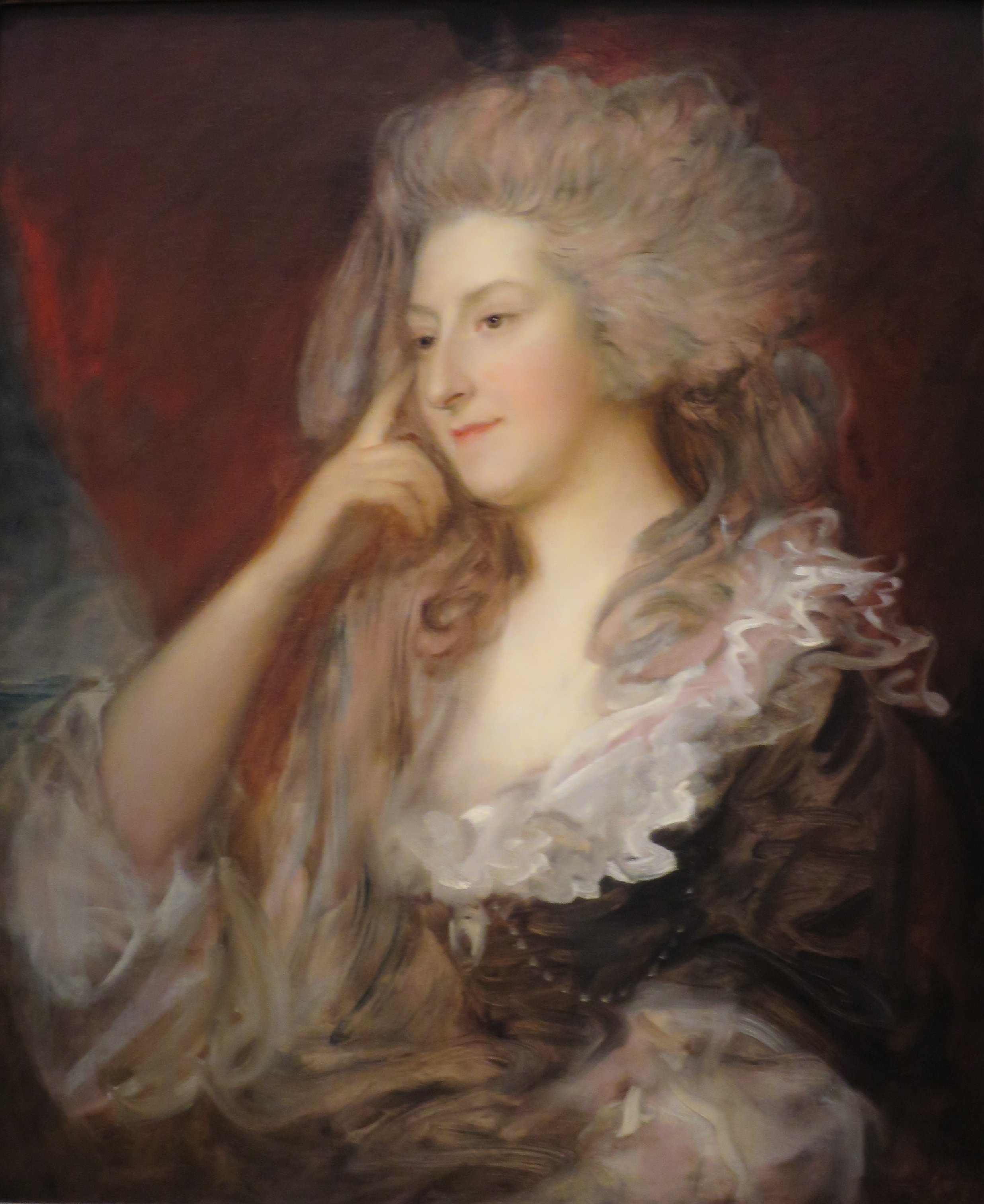 Mrs. Maria Anne Fitzherbert by Thomas Gainsborough, 1784, oil on canvas, California Palace of the Legion of Honor